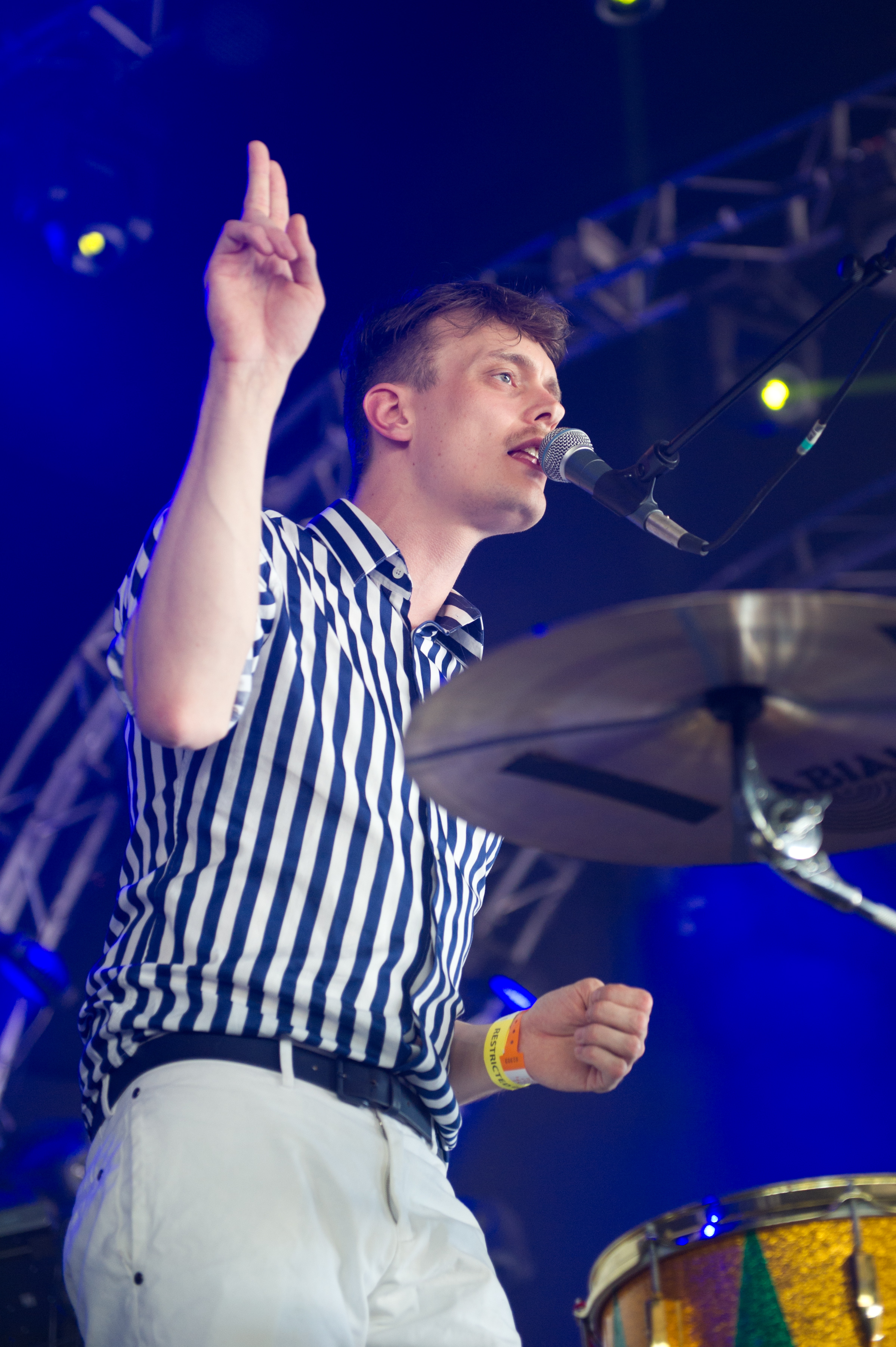 Casper Clausen from Efterklang at Roskilde Festival 2010